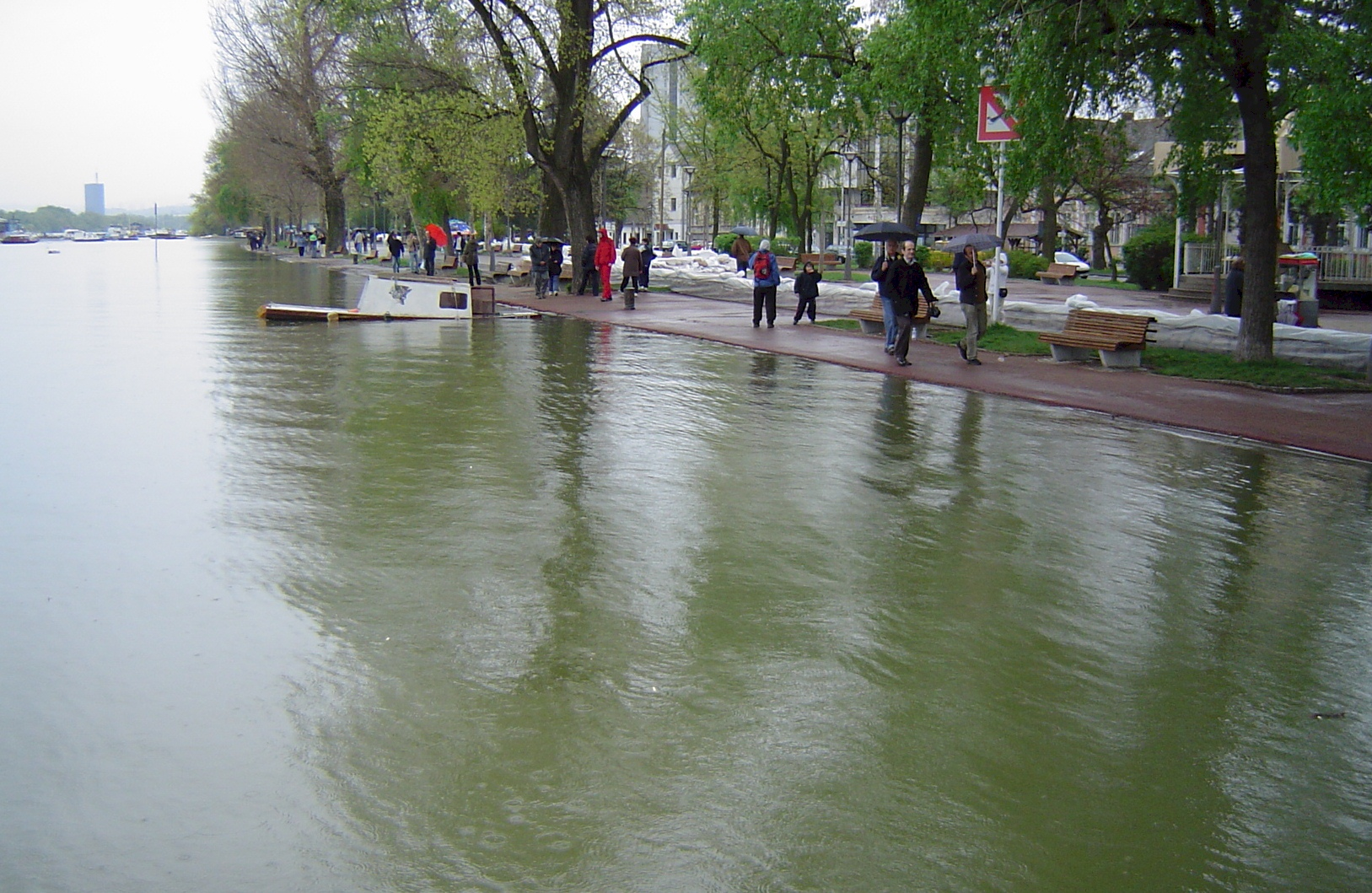 Danube at Zemun, shot on 16 April 2006.